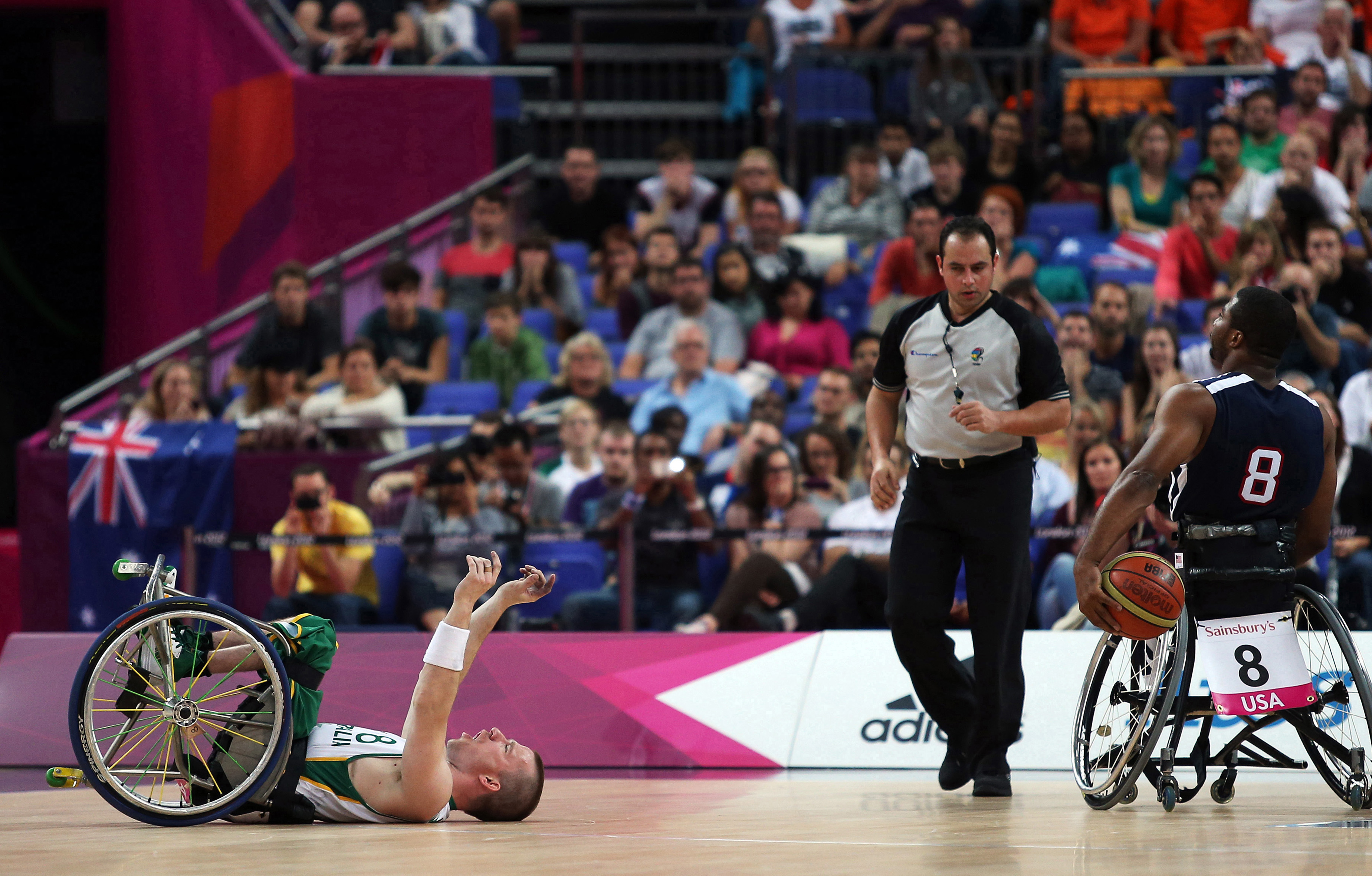 Photograph of Australian Paralympic team member Michael Hartnett at the 2012 Summer Paralympic Games in London